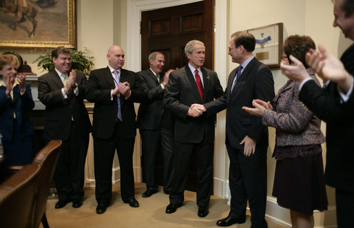 President George W. Bush shakes hands with Judge Samuel A. Alito in the Roosevelt Room of the White House Tuesday, Jan. 31, 2006, after the Senate voted to confirm Judge Alito as the 110th Justice of the Supreme Court. Looking on, from left, are: Harriet Miers, Counsel to the President; William K. Kelley, Deputy Counsel to the President; Steve Schmidt, Deputy Assistant to the President and former Senator Dan Coats (R-Ind.). At right are Mrs. Martha Ann Alito and Ed Gillespie. White House photo by Eric Draper